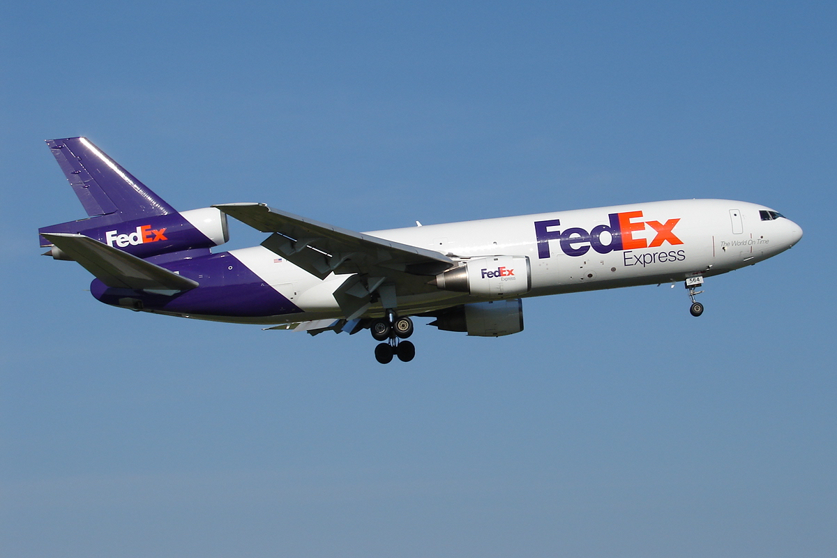 Gonna miss these workhorses! Catch them while you can.